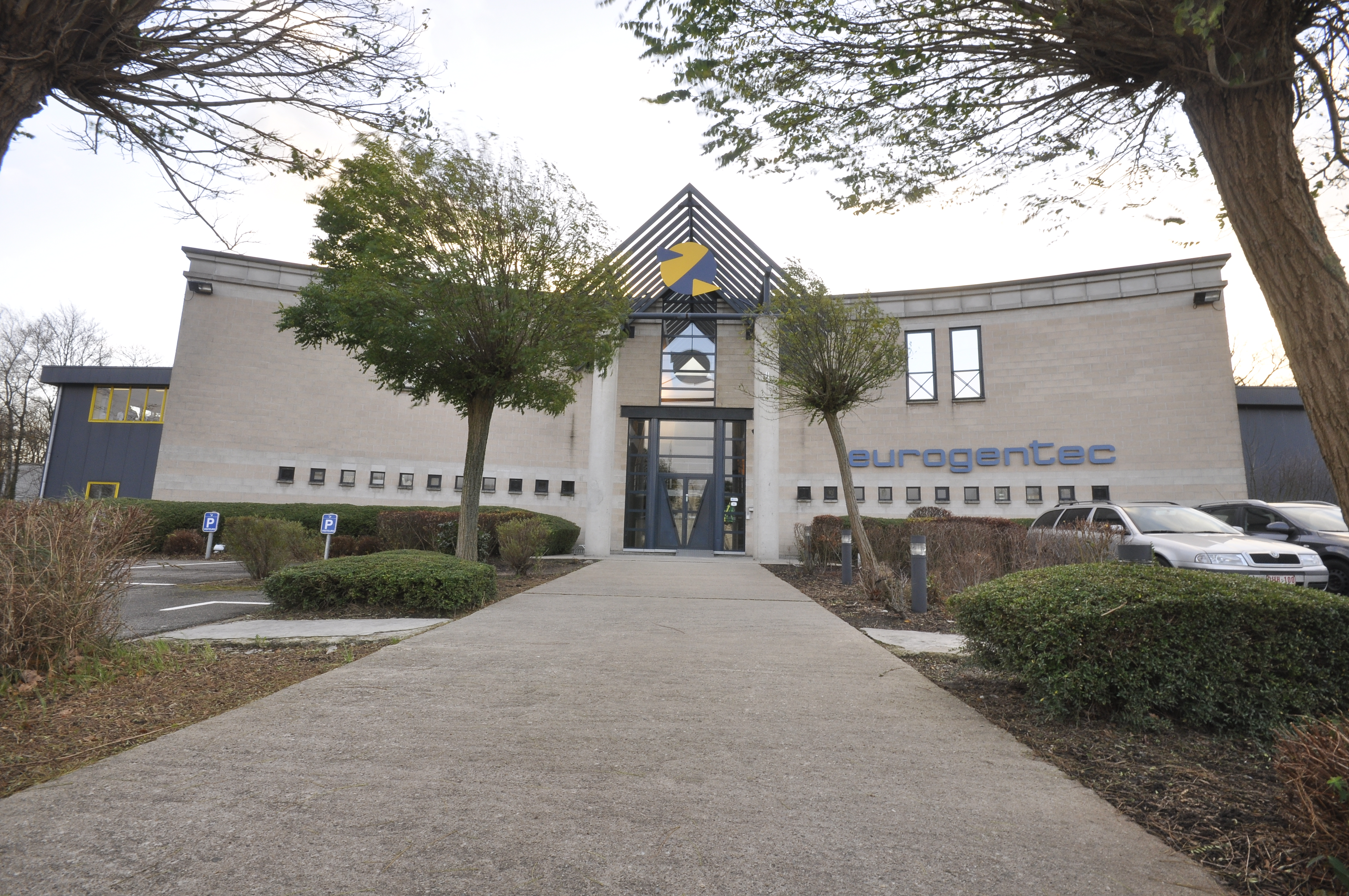 Eurogentec Biologics division in Seraing, Liège, Belgium